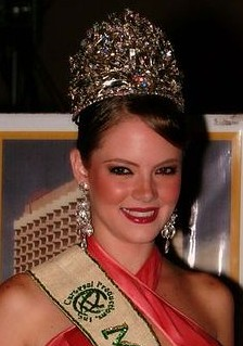 Alexandra Braun Waldeck, Miss Earth 2005